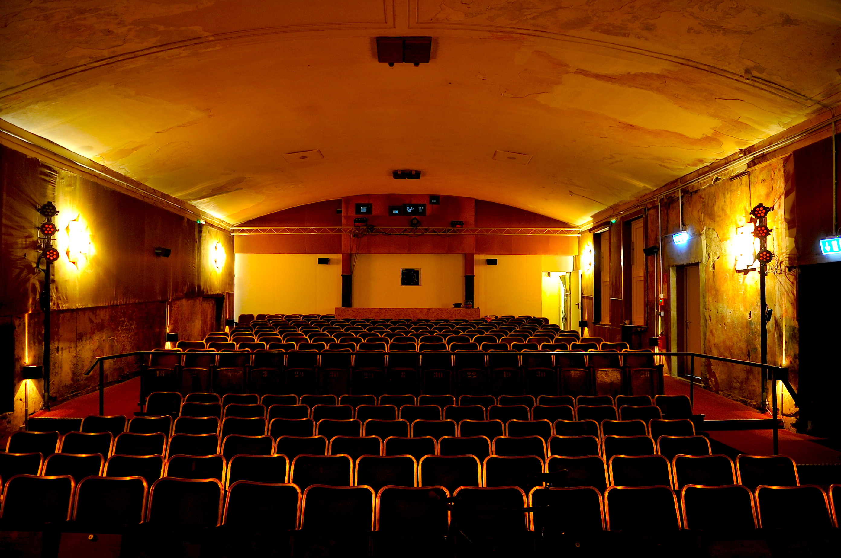 RIALTO Lichtspiele movie theater interior view